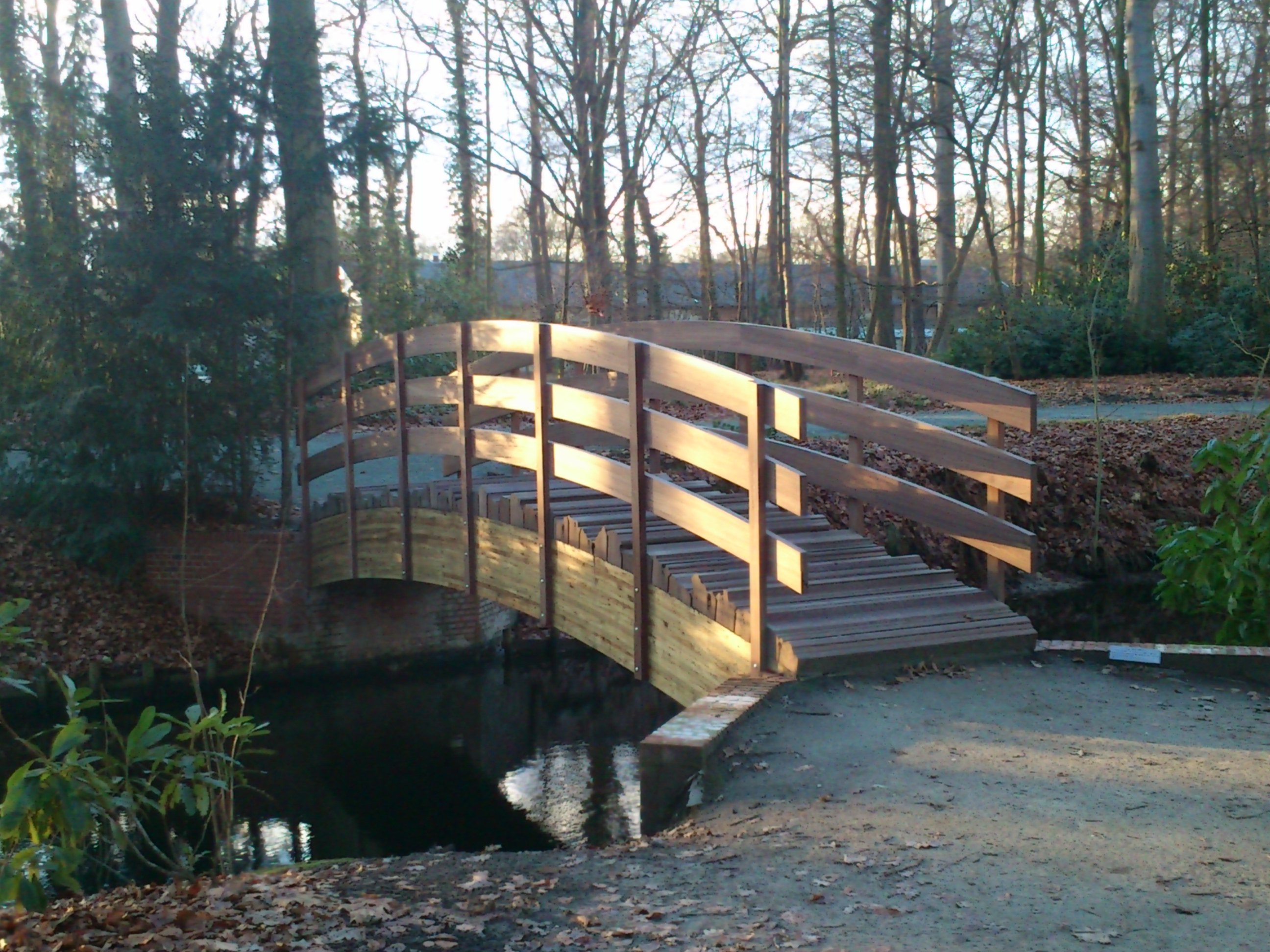 A bridge desingned by the Chinese artist Ai WeiWei in the Middelheimpark, Antwerp, Belgium.